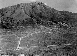 Image of Monte Sammucro and San Pietro, at the right foot of the mountain, during World War II. Site of one of the fiercest battles of the Italian Campaign